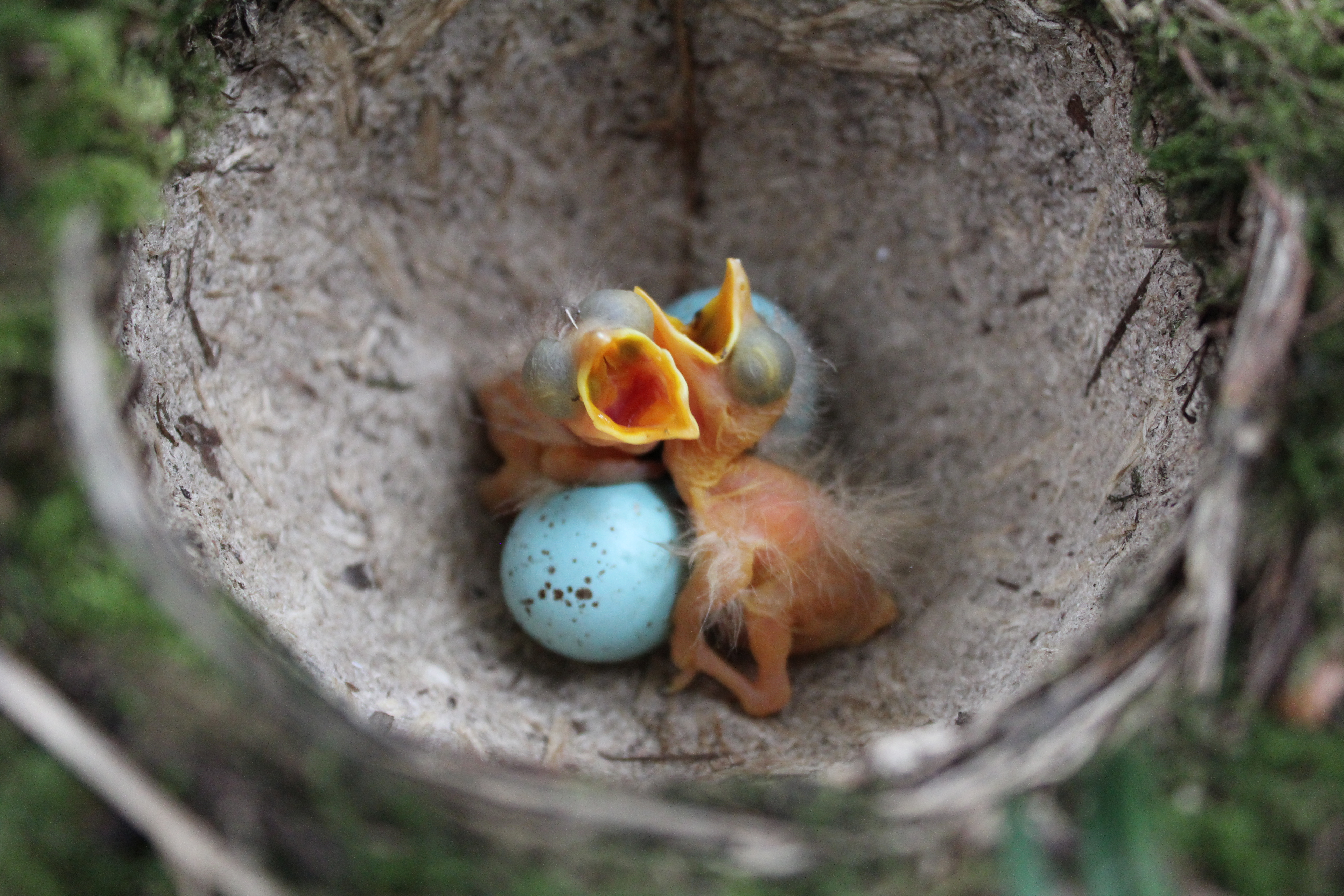 Latin name Turdus philomelos Family Chats and thrushes (Turdidae) Overview A familiar and popular garden songbird whose numbers are declining seriously,... Where to see them ... When to see them All year round. What they eat Worms, snails and fruit.